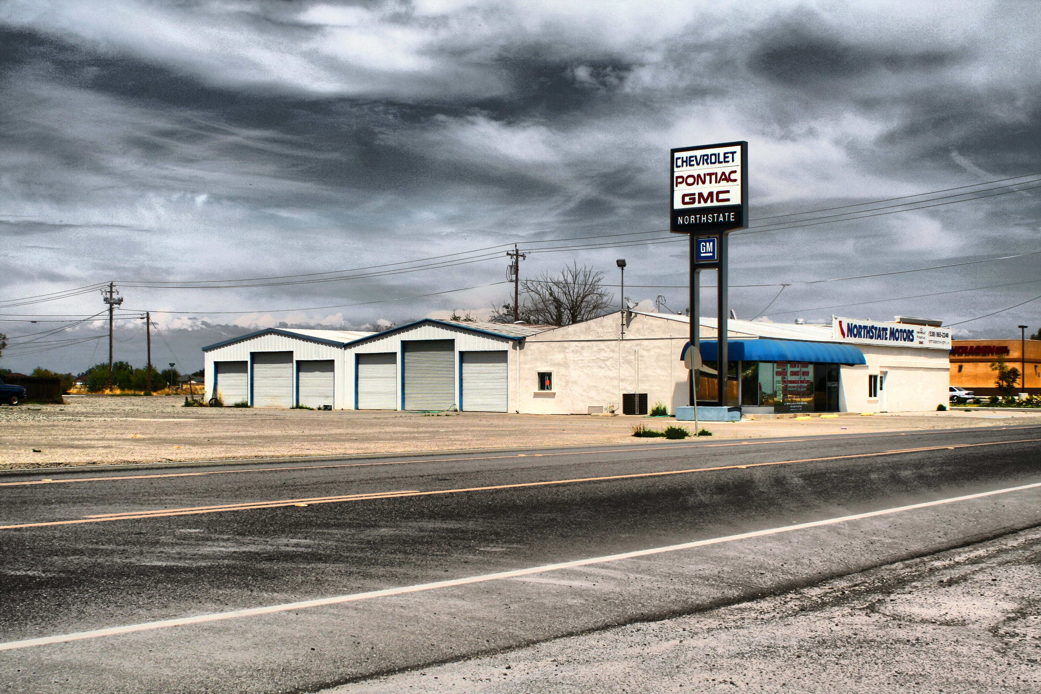 The Internet gives us the feeling of a cyber-ghost town, with the websites of closed businesses lingering long past the demise of those businesses. This dead dealer's site would lead one to believe it still has a pulse, but it does not ...